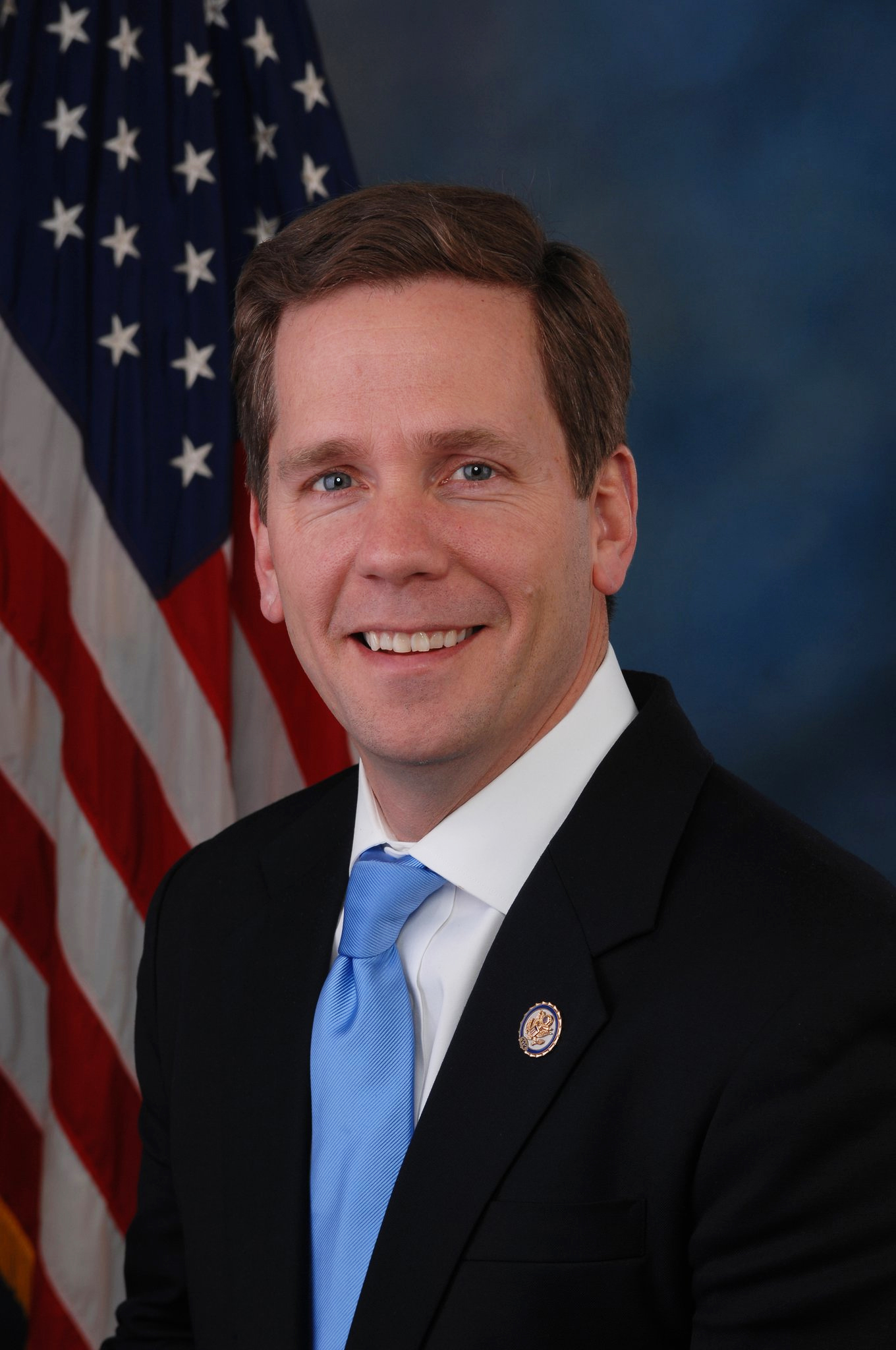 Rep Robert Dold Official portrait